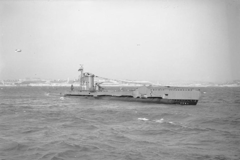 British U class submarine HMSM UNITED underway in Plymouth Sound.